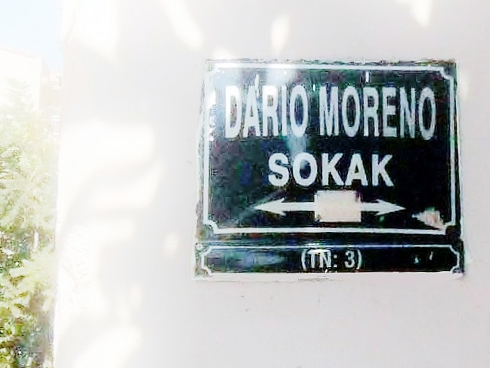 Dario Moreno Street in İzmir, Turkey